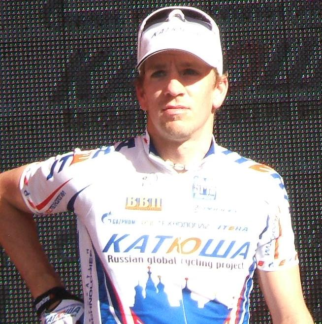 Named cyclist at the en:2009 Tour Down Under team presentation